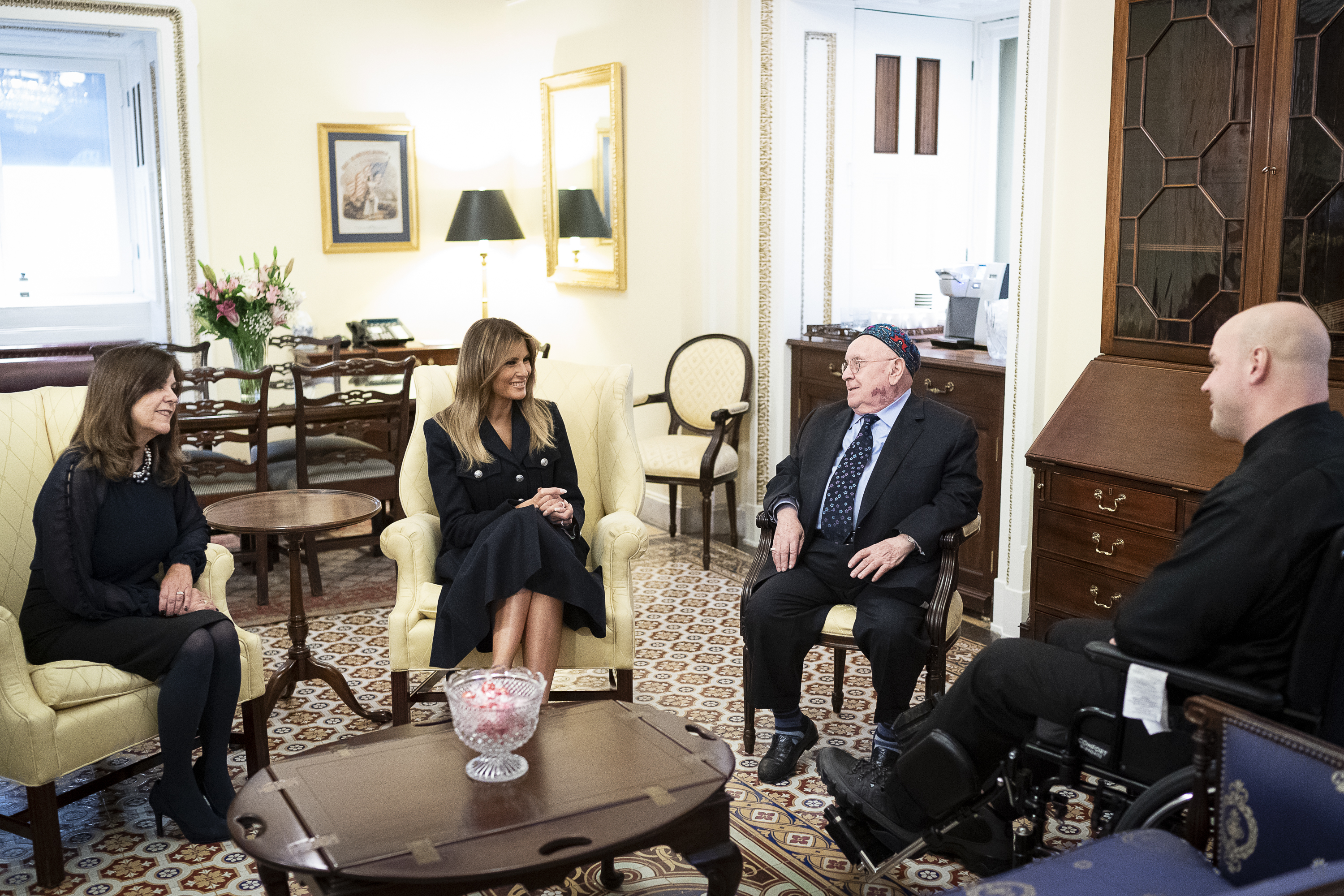 First Lady Melania Trump and Mrs. Karen Pence participate in a listening session with gallery guests Judah Samet and Timothy Matson Tuesday, February 5, 2019, at the U.S. Capitol in Washington, D.C. (Official White House Photo by Andrea Hanks)